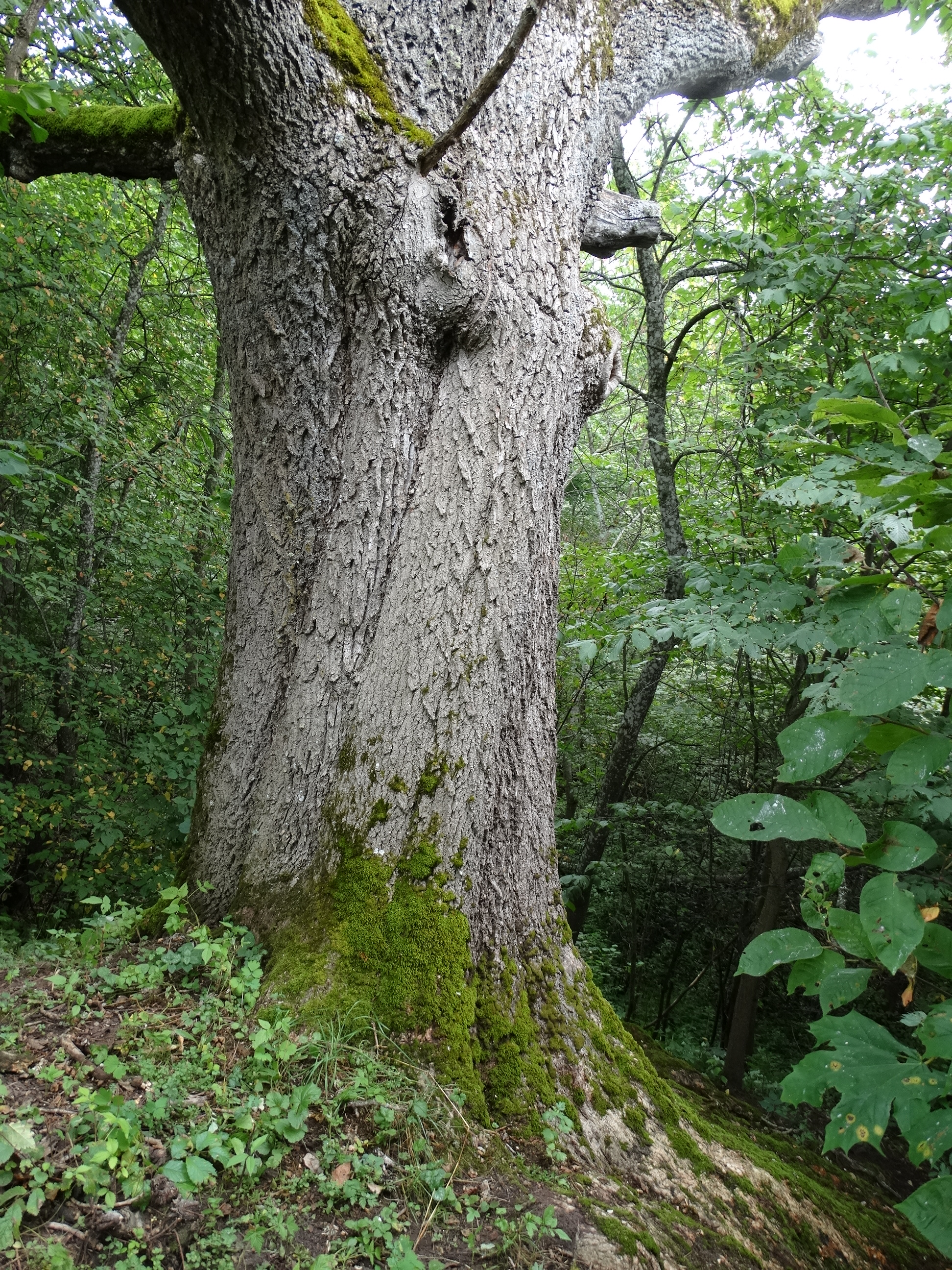 Fraxinus excelsior tree in Buivydai, Anykščiai District, Lithuania